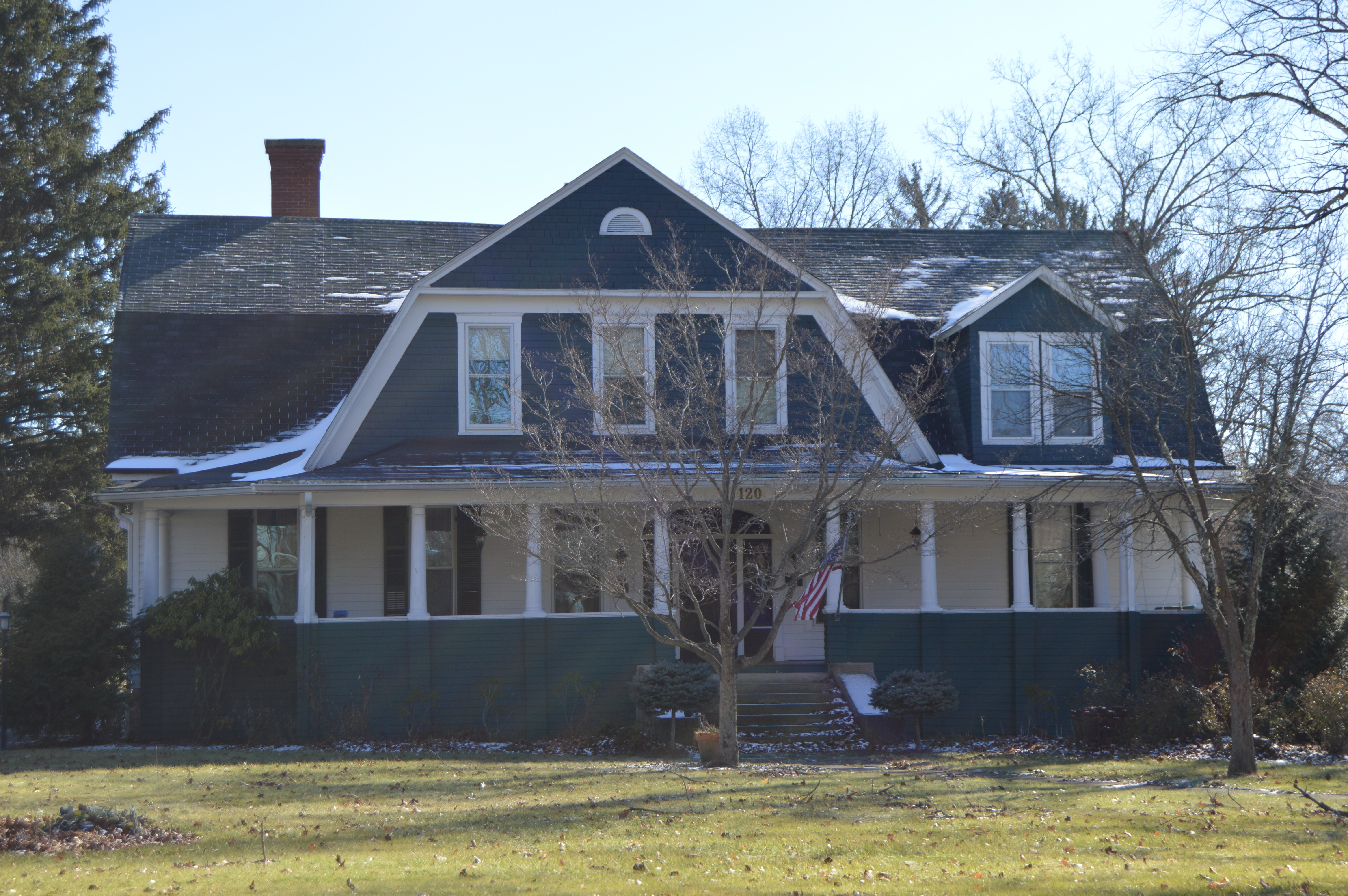 Front of the E. B. Hawkins House, located at 120 Fayette Avenue in Fayetteville, West Virginia, United States. Built in 1905, it is listed on the National Register of Historic Places.